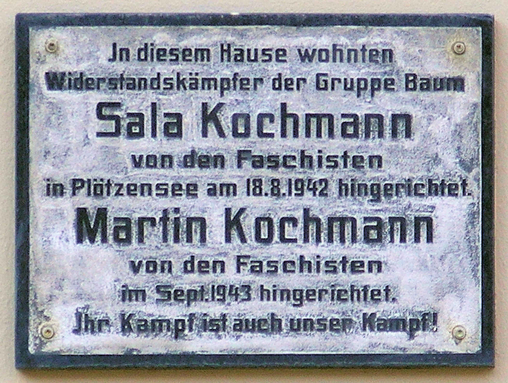 Memorial plaque, Martin Kochmann, Gipsstrasse 3, Berlin-Mitte, Germany Koordinate:52°31′37.9″N 13°23′58.2″E / 52.527194°N 13.3995°E